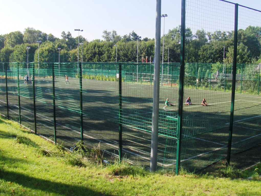 Orlik